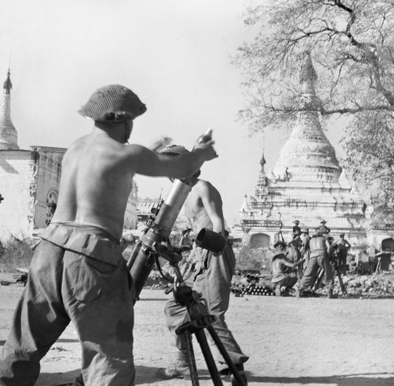 British mortars in action during the fighting for Meiktila in Burma, 28 February 1945. The Campaign in Mandalay February - March 1945: British mortars in action during the fighting for Meiktila.